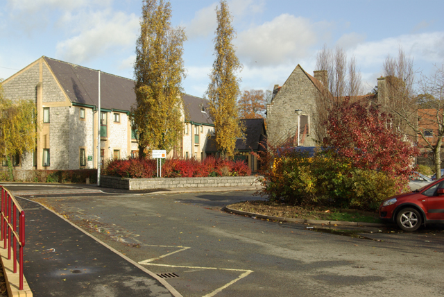 High School The High School showing the new buildings on the left with the original Grammar School building just right of centre.